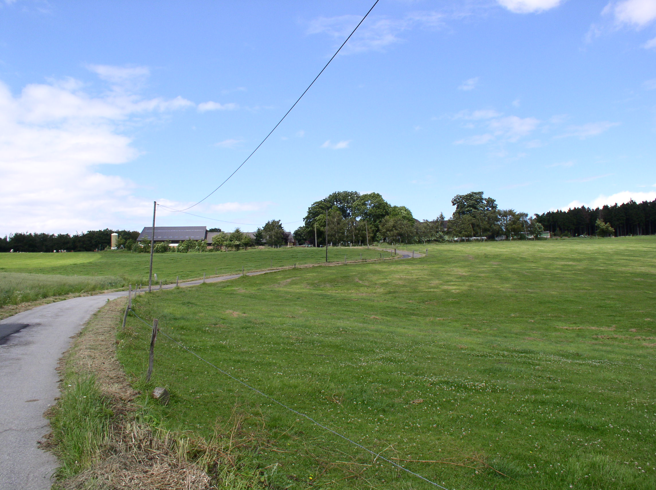 Halver-Birkenbaum